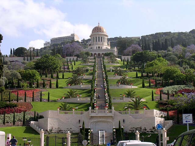 Shrine of the Báb